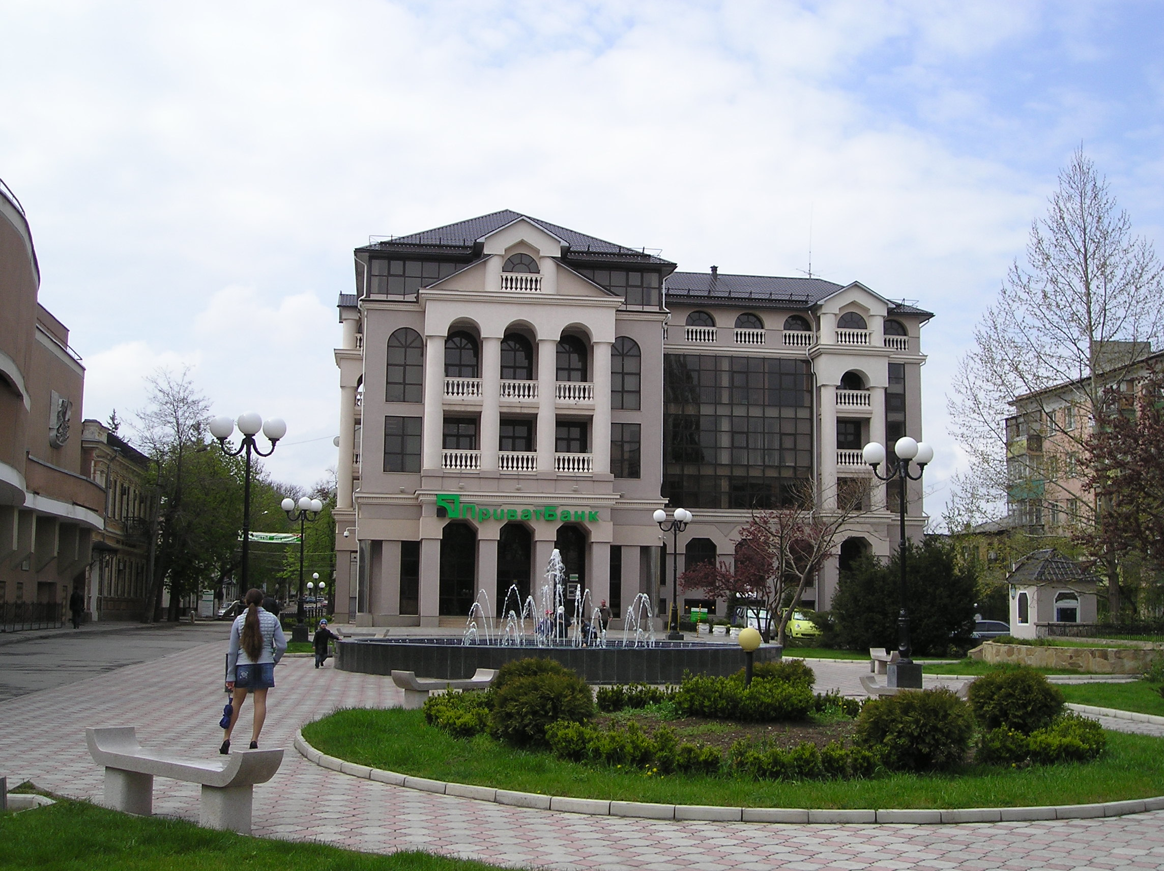 PrivatBank in Simferopol